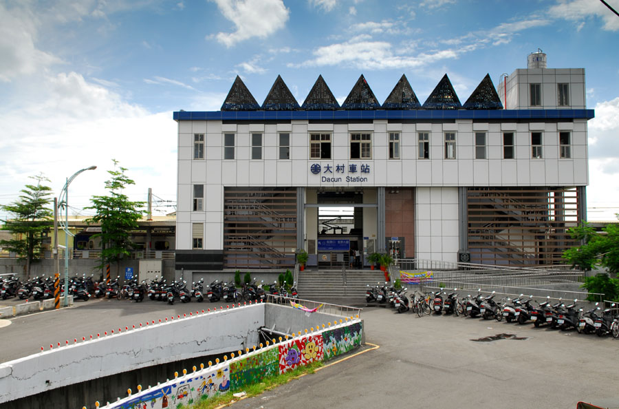 DaCun Station is a local train station of Taiwan's Western main rail line. It's the main station of Dacun (TaTsun) Township, ChangHua County. DaCun Station is one of the most modern train stations built under TRA's "urbanlization" policy.